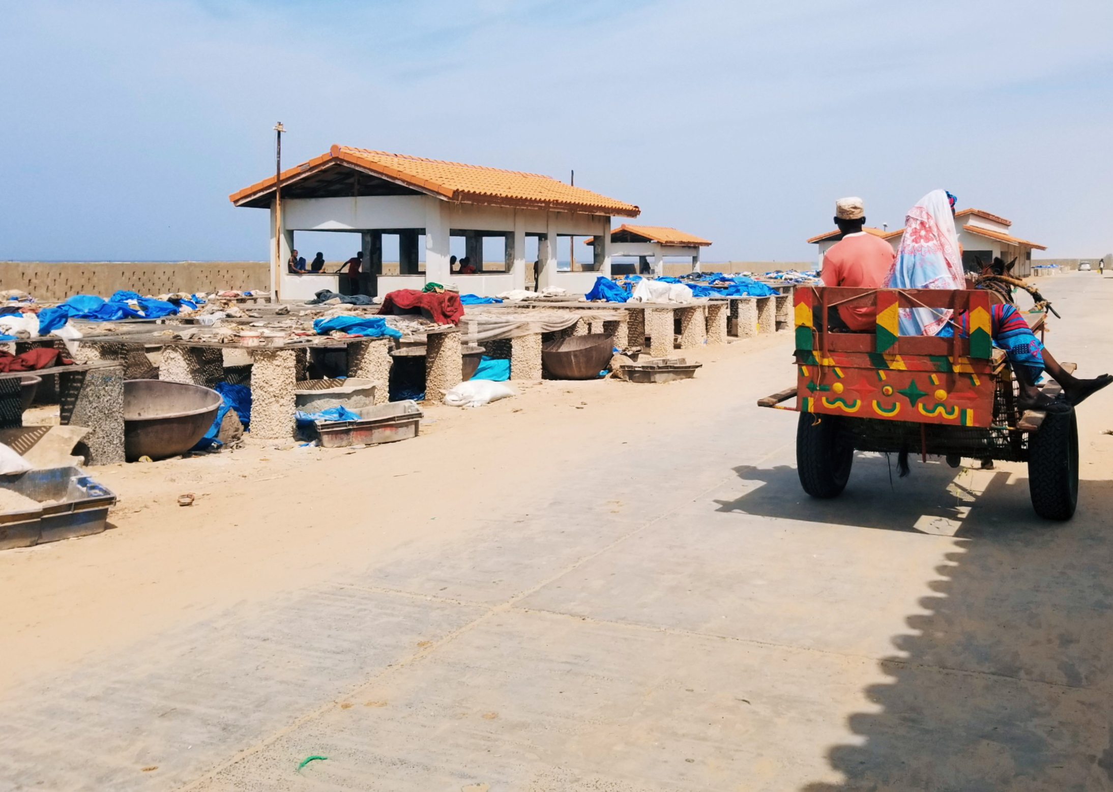 At the moment fishmarket was closed, but still there were some people This is an image with the theme "Africa on the Move or Transport" from: Senegal